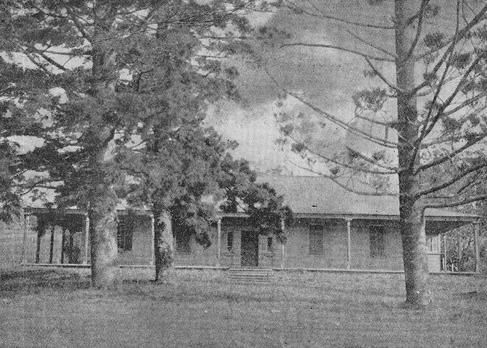 collections/view/id/3353/title/A Journal of a Tour of Discovery across the Blue Mountains, New South Wales, in the year 1813, by Gregory Blaxland. Please feel free to comment on this or any of the other images in the collection. If you have more accurate information regarding the location and/or date of the image, we would love to hear from you!